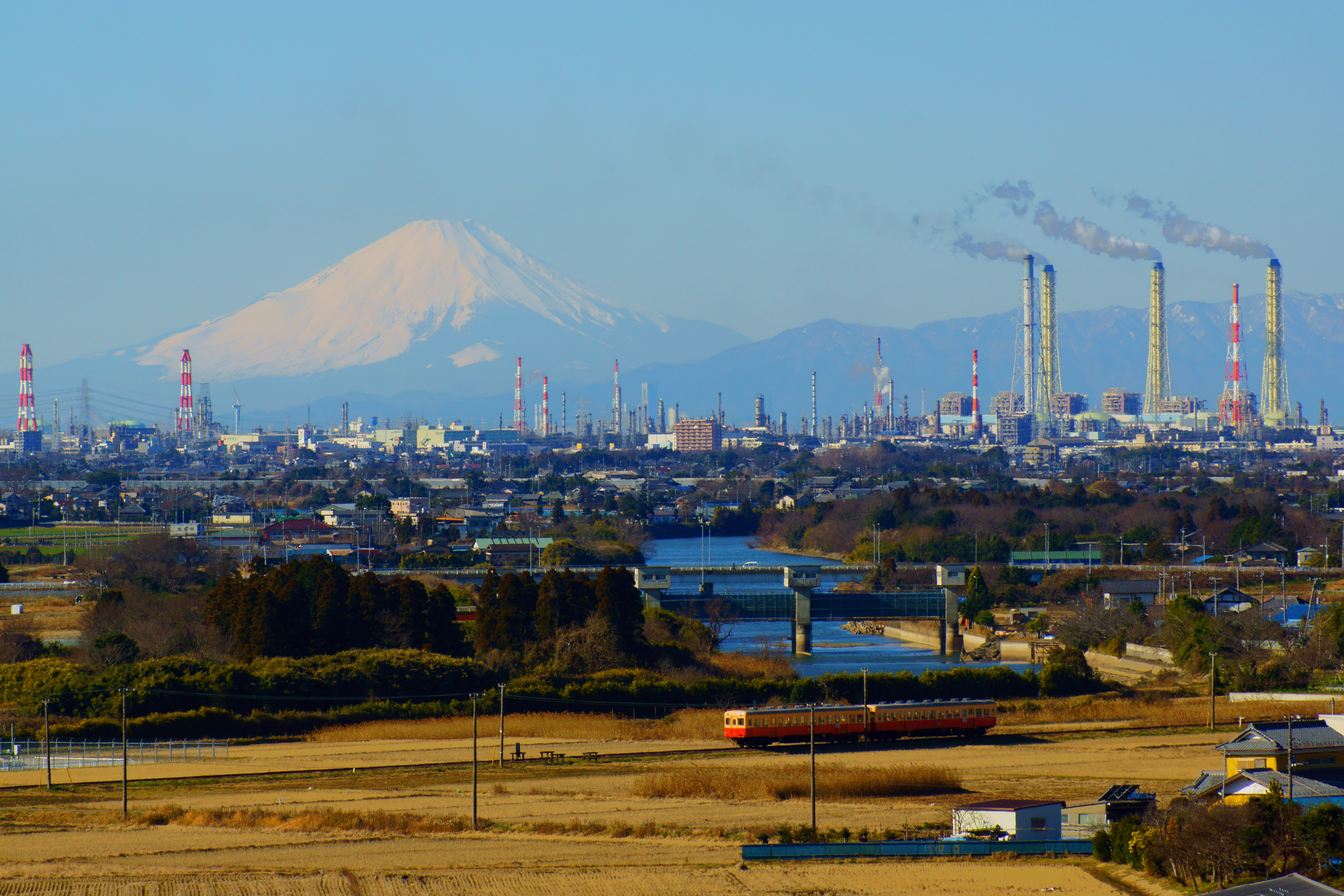 This is the distant view of the Keiyo industrial belt where Mt. Fuji was a background. Three chimneys in the right are Anegasaki LNG thermal power plant (3,600,000 kilowatts of output). The Highest chimney in the left of Anegasaki LNG thermal power plant is Idemitsu Chiba oil refinery (220,000 barrels of daily throughput). The chimney applied by red and white in the right is Mitsui Chemicals Chiba factory. Three chimneys in the left are Sumitomo Chemical Chiba factory. 33% of the ethylene consumed in Japan is made at Keiyo industrial belt.